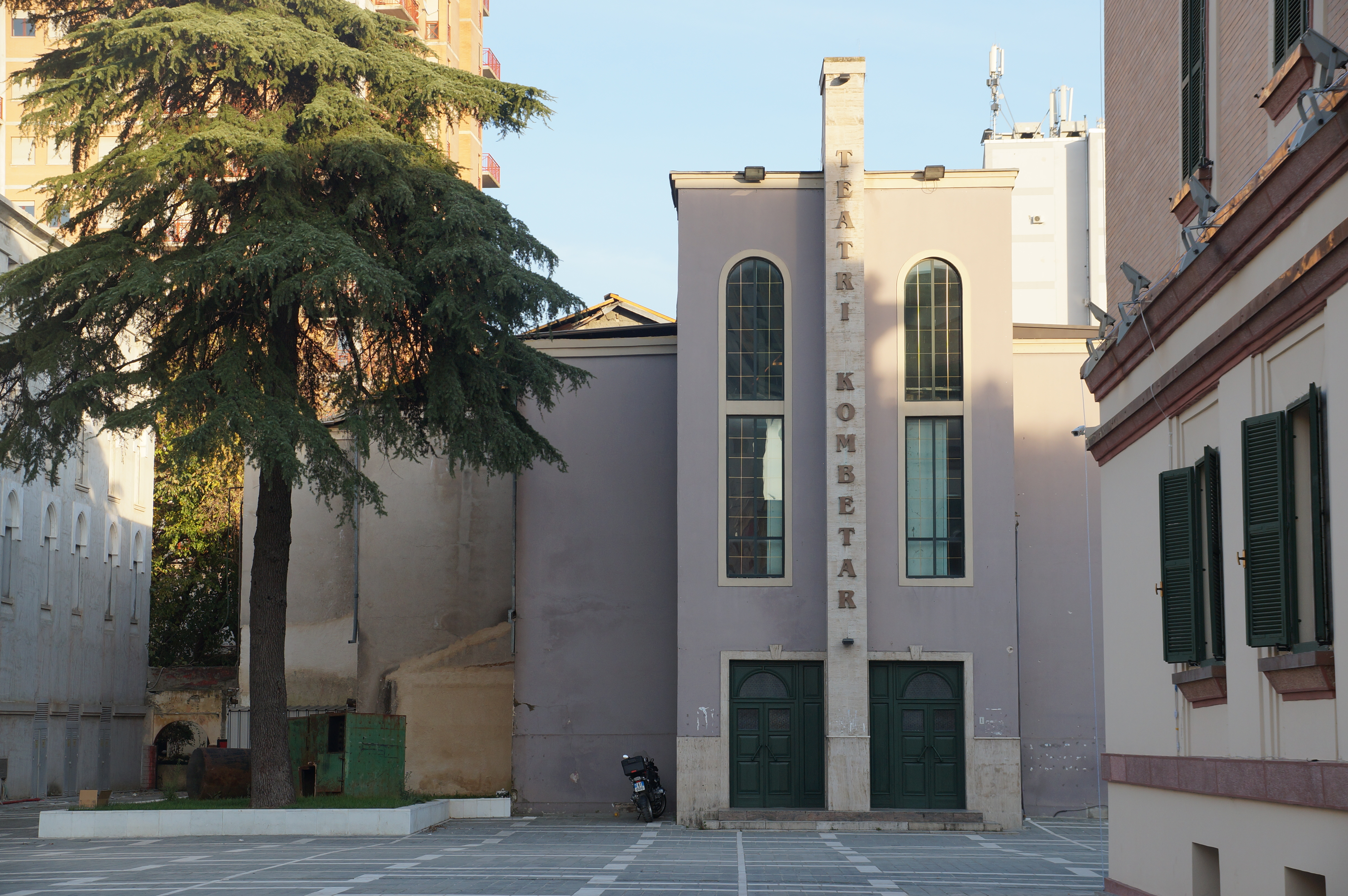 National Theatre in Tirana, Albania